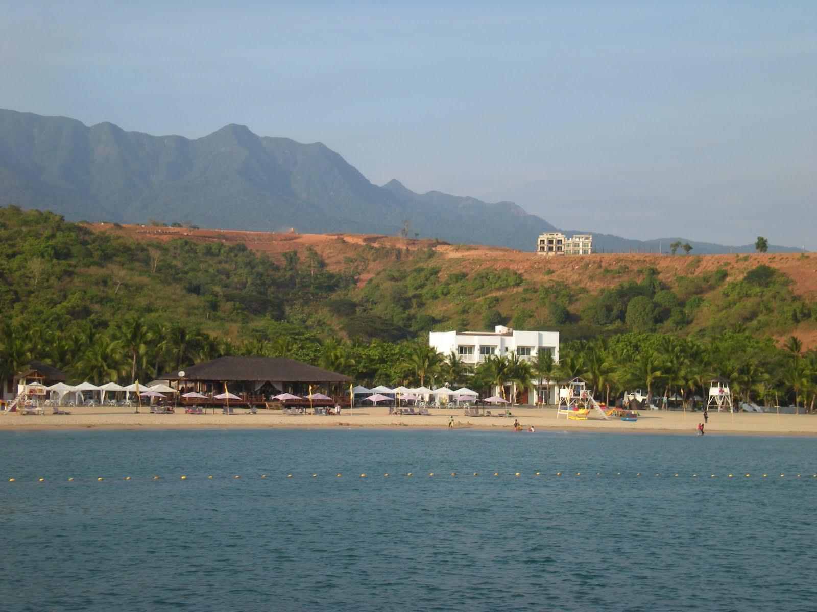 Hotel Camaya, Mariveles, Bataan, Philippines.